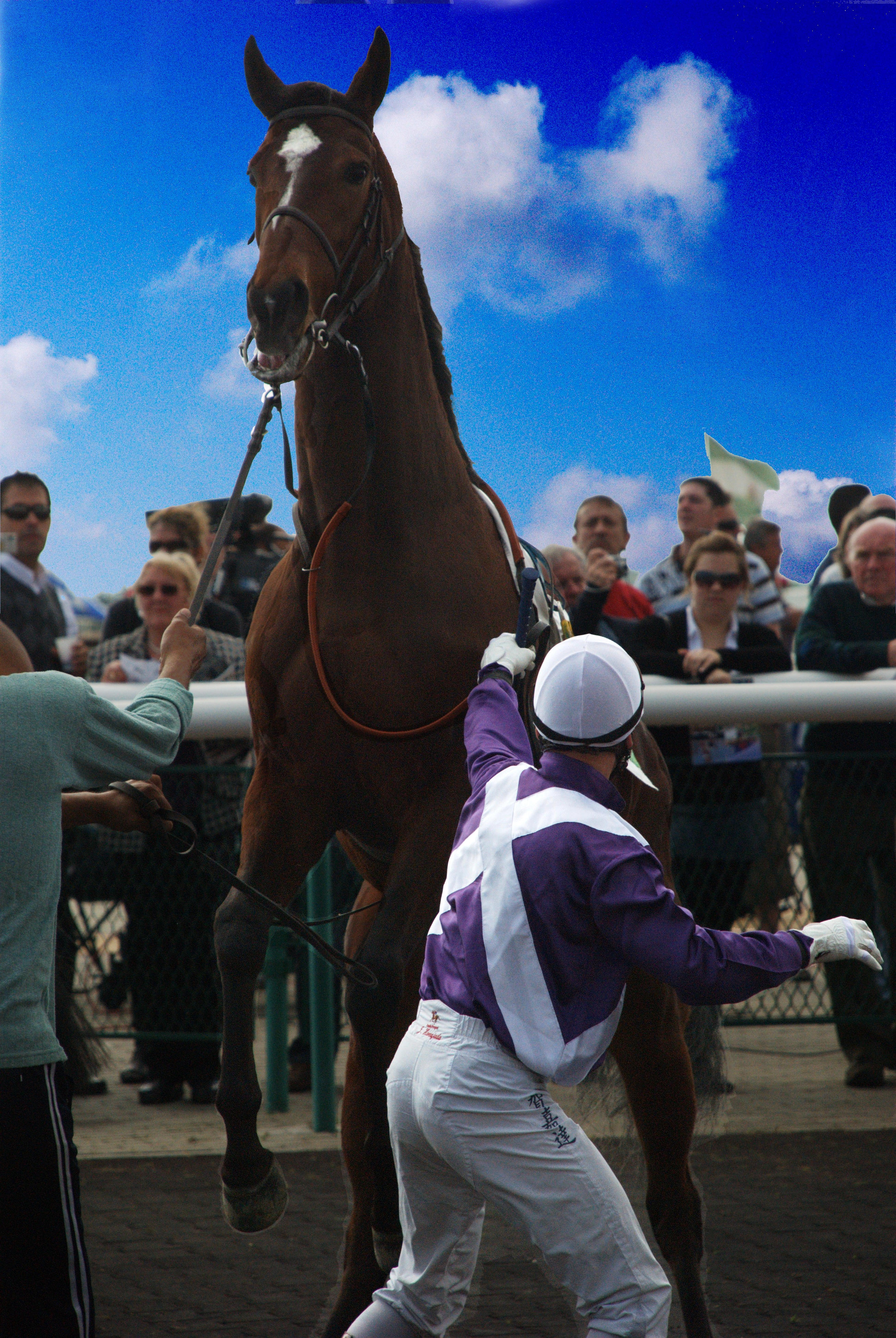 The first race of the season. Costa del Sol Racecourse, Mijas, Spain.